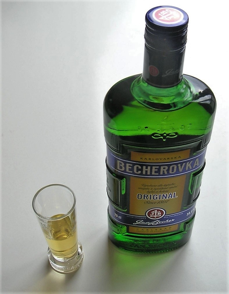 Becherovka bottle